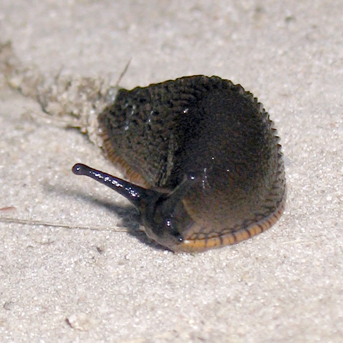 The flexible invertebrate Arion ater (Arionidae) with slimy trail, a big black slug, had just crept out of daytime hideout, photogenically extending her feelers. On bended knees I struggled to put the camera [red-eye-reduction ON etc.] into an appropriate position closing up on the head of the tough and flexible, sluggishly bending primeval. The flashlight reflexions of the surrounding bright sands have given a tasty colour to the orange-brown coaster of the black 'liquorice' ... Photo was taken when the dawn began to arrive. Under a cloudy sky at 20.06 pm (MEZ), - immediately before the sunset.